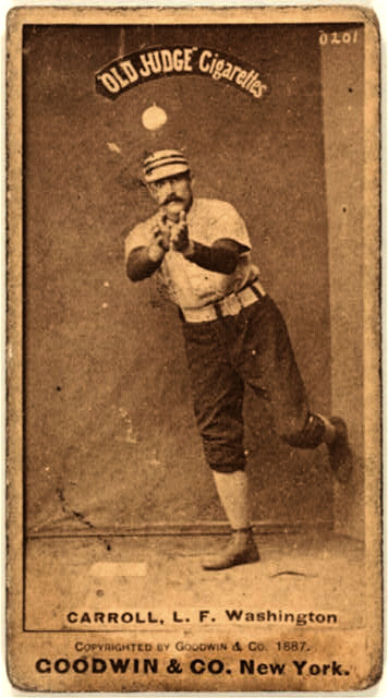 An Old Judge (N172) tobacco card of baseball player Cliff Carroll.